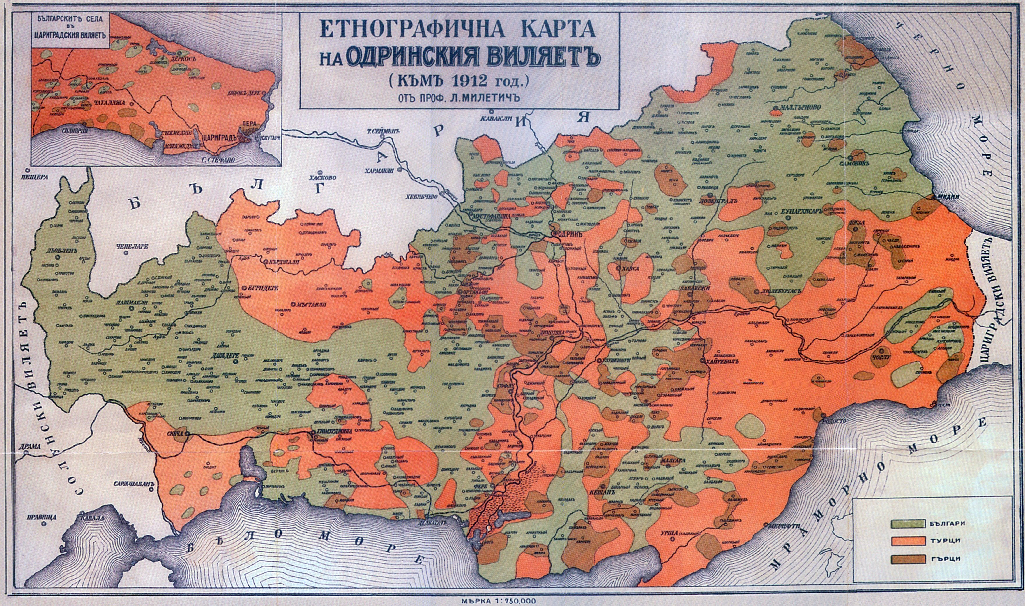 Ethnographic map of Edirne Villayet (Eastern Thrace and Western Thrace) in 1912 by Lyubomir Miletich.